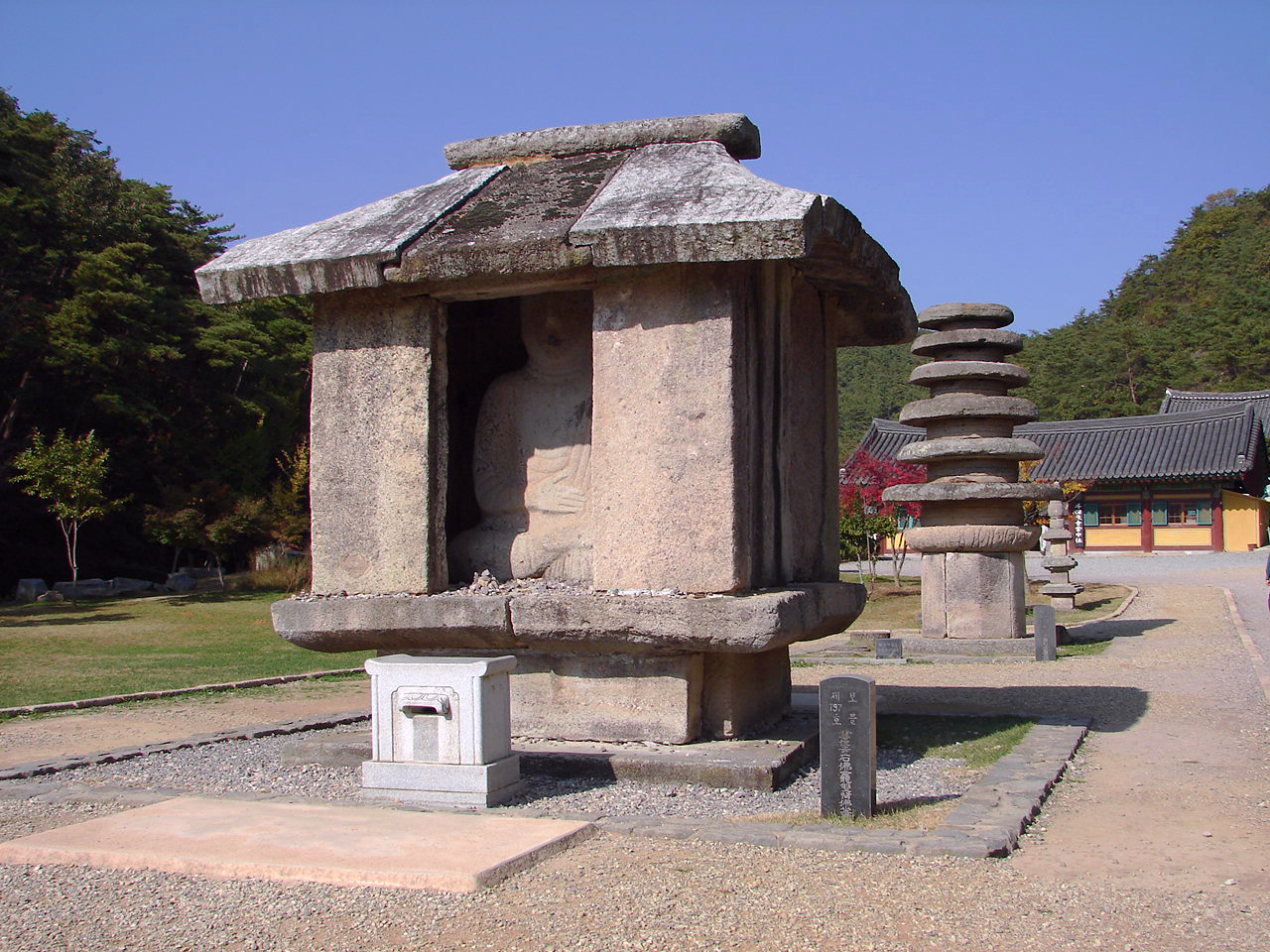 Unjusa Seokjo Bulgam (stone Buddhist shrine at Unjusa) at Unjusa near Gwangju (Hwasun/Yongyang)